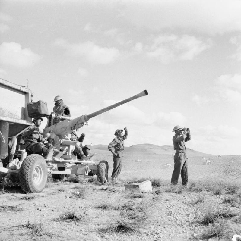 The British Army in North Africa 1943 The crew of a 40mm Bofors anti-aircraft gun watch the sky after a Stuka raid during the 8th Army's advance on Tripoli, 29 January 1943.